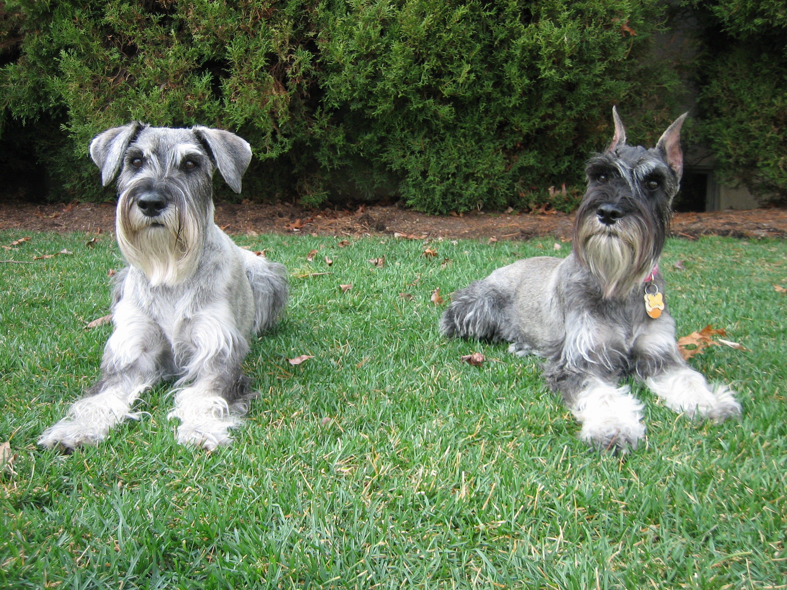 Two female Standard Schnauzers. One with cropped ears, one with natural ears.